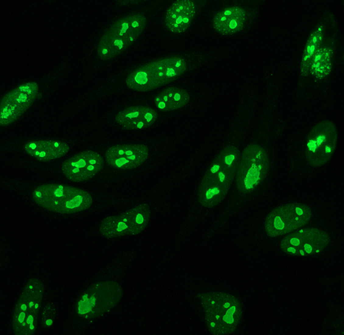 Immunofluorescence pattern of nucleolar antibodies.Produced using serum from a patient on HEp-20-10 cells with a FITC conjugate.